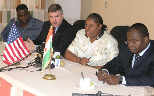 Niger’s Minister of Education Sidikou Oumarou, Ambassador Allen, and MCC Deputy CEO Rodney Bent (right to left) at threshold grant signing ceremony